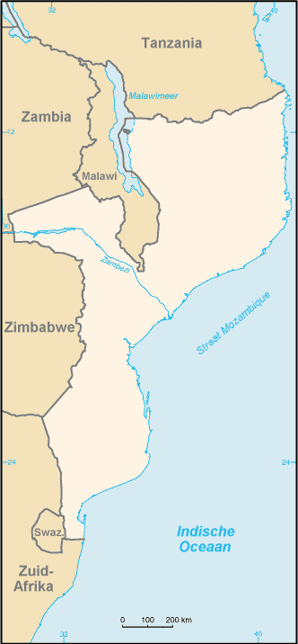 Blank map of Mozambique for use in location map adapted by Bemoeial2